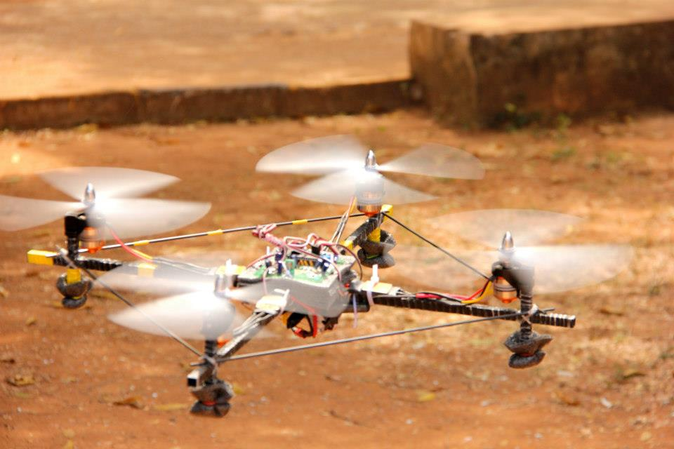 Pragyan 2012 Quadcopter